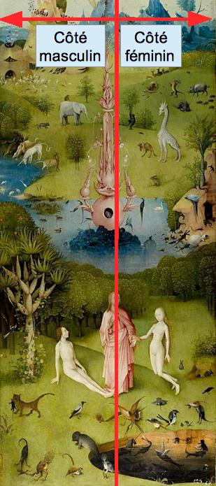 Symbolic sharing of the panel according to the side where each figure is placed according to Jesus.